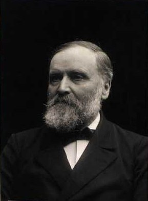 Danish architect Ludvig Peter Fenger (1833-1905). Professor and municipal architect in Copenhagen.